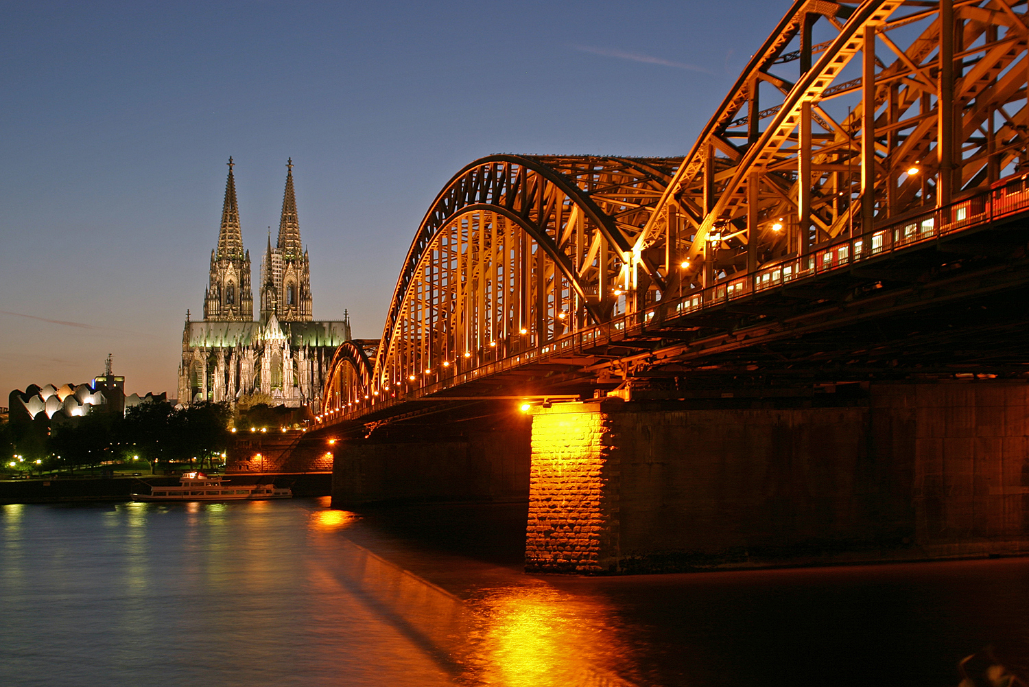 Hohenzollernbrücke (bridge), Cathedral, Museum Ludwig. Cologne, Germany.